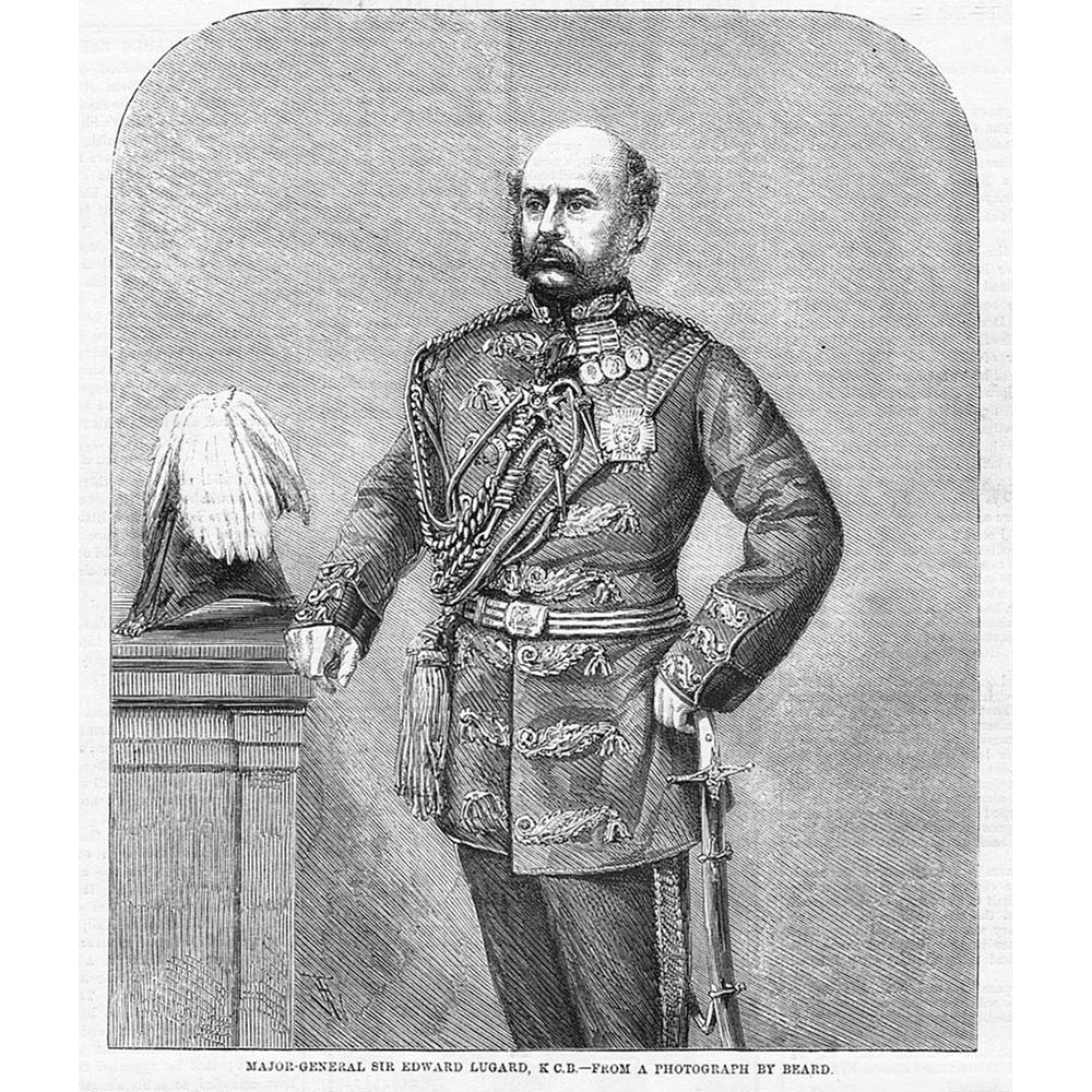 Print of General Sir Edward Lugard